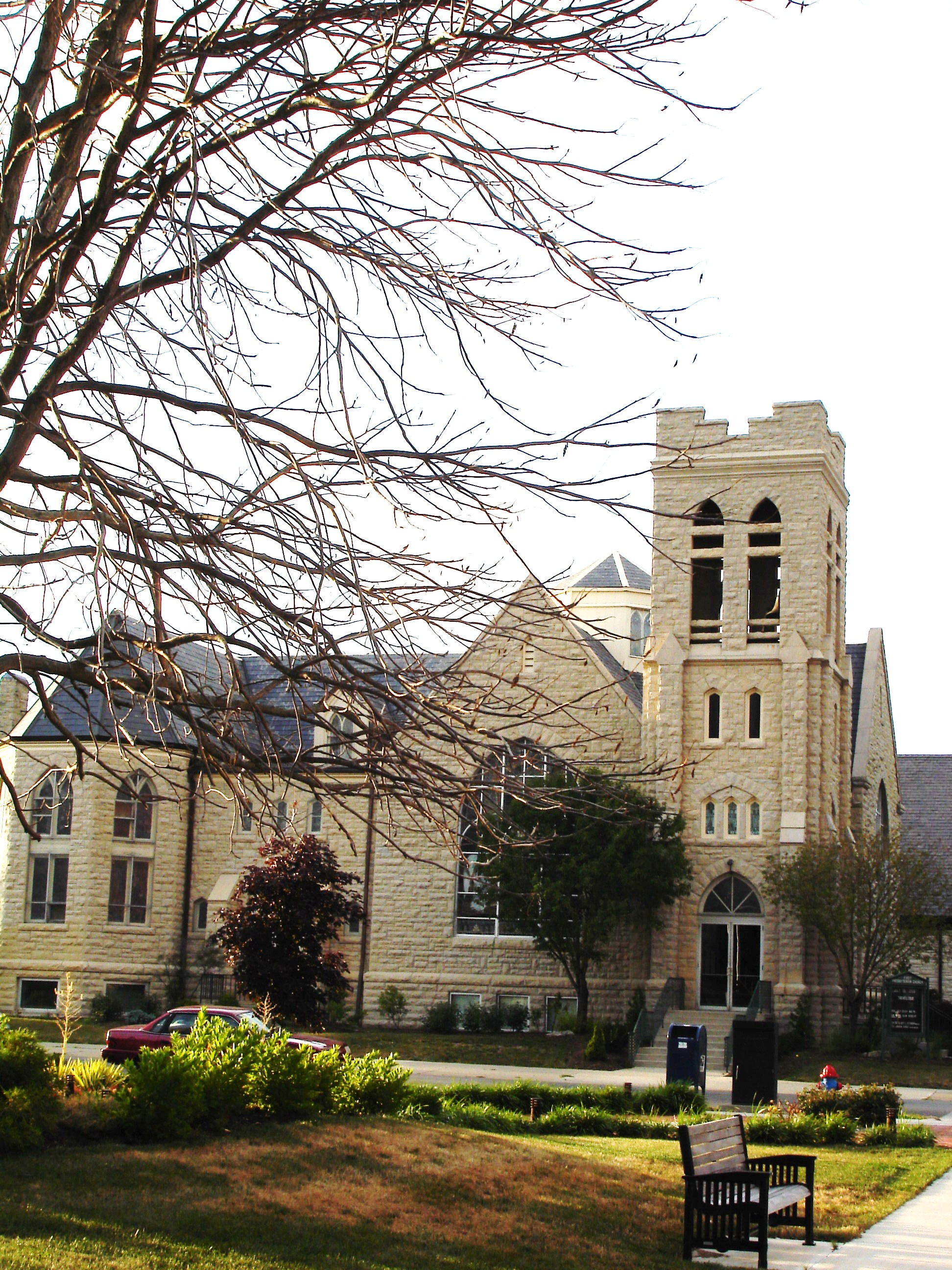 Marysville Presbyterian Church, Marysville, Ohio, United States